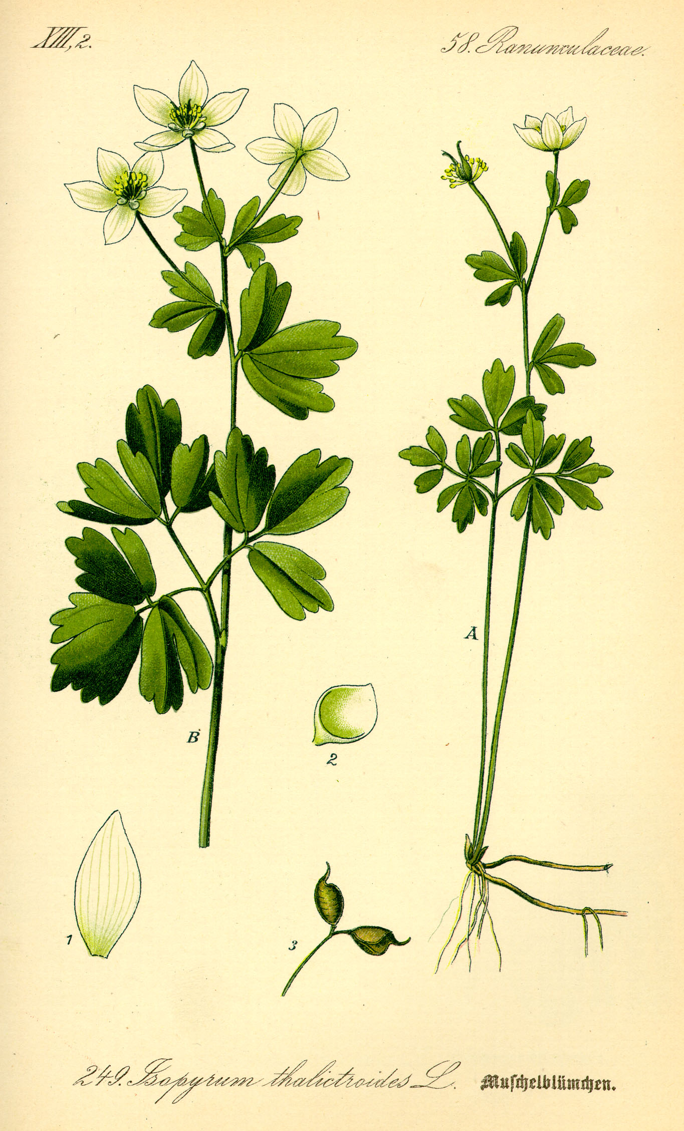 Isopyrum thalictroides